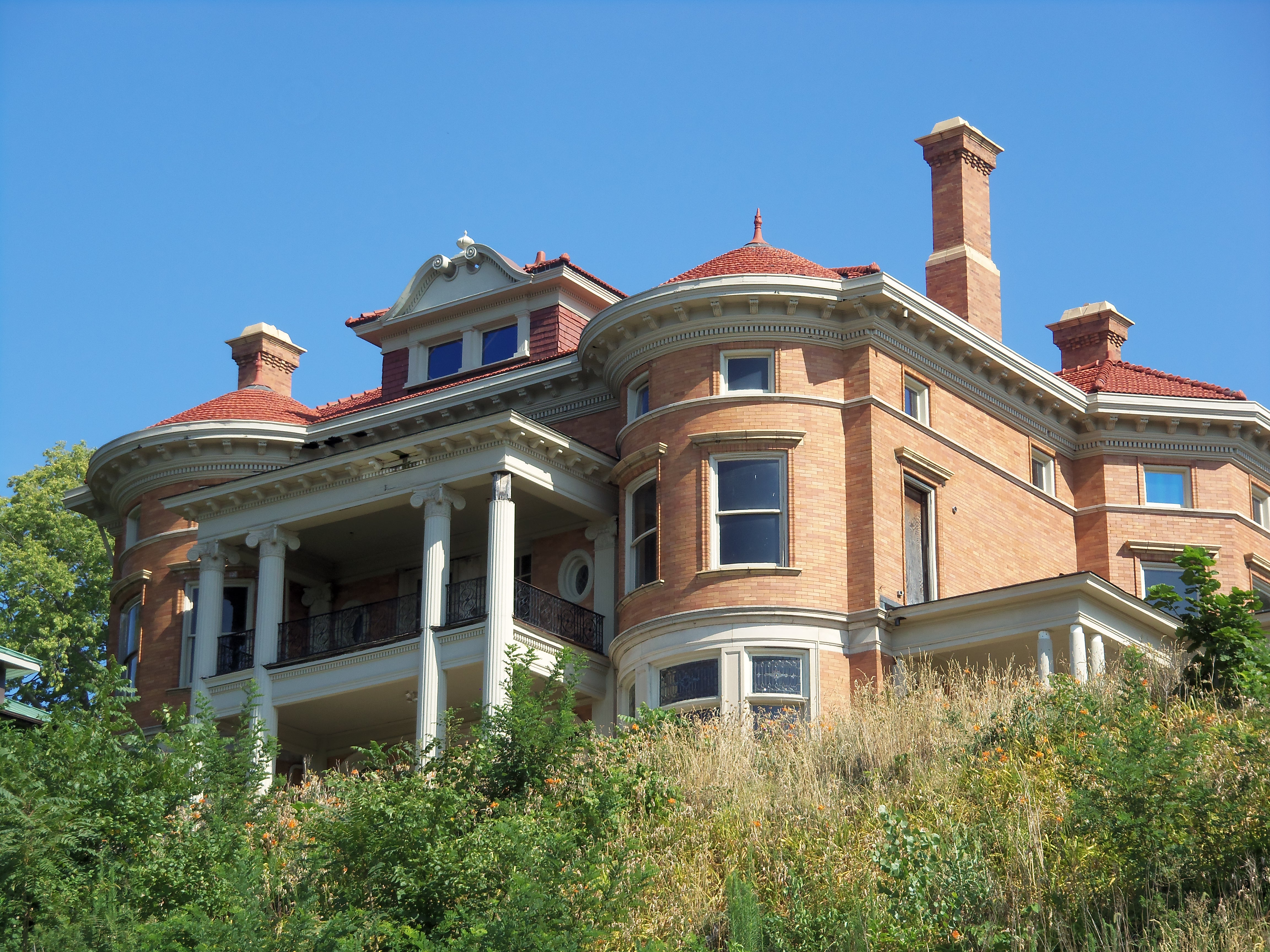 Overview (1901) is located in the Hamburg Historic District, Davenport, Iowa